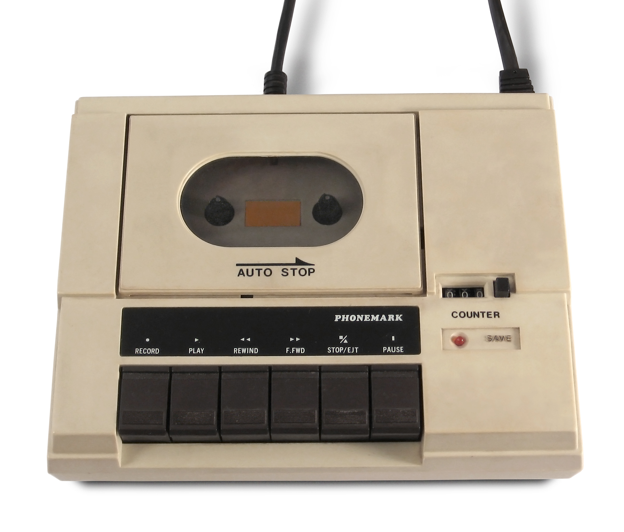 Phonemark PM-4401A Data Recorder, a cassette drive intended for use with Atari 8-bit home computers (400/800/XL/XE). It was purchased from the Dixons electrical chain in the UK circa 1986.